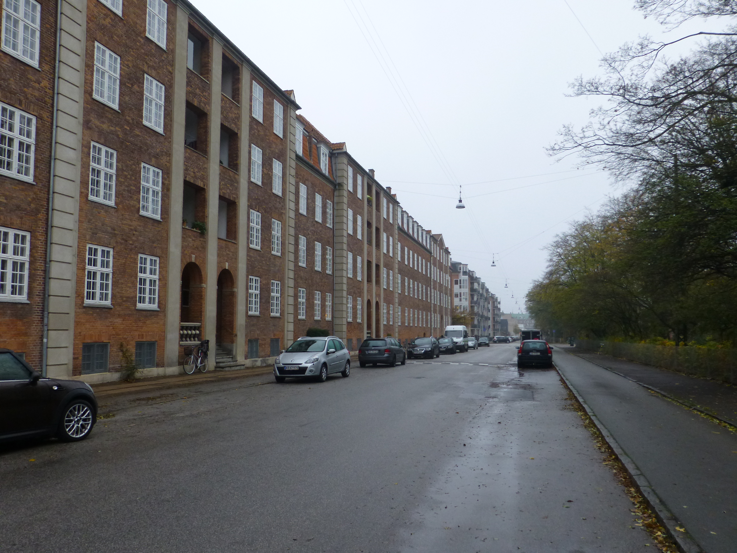 The street Serridslevvej in Østerbro in Copenhagen.